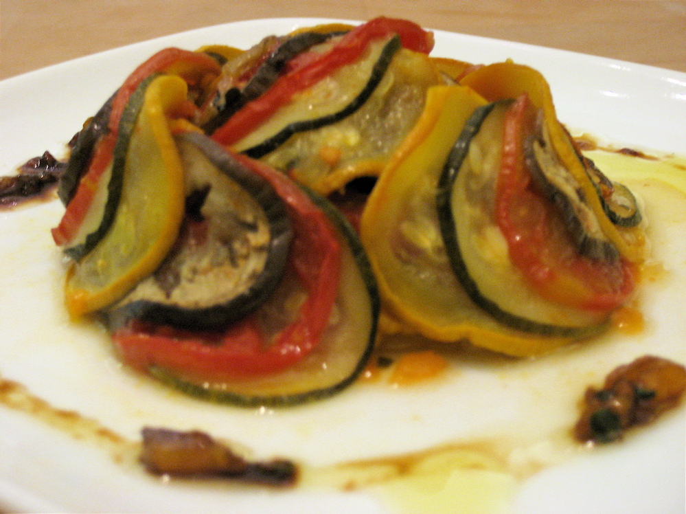 confit byaldi from USA